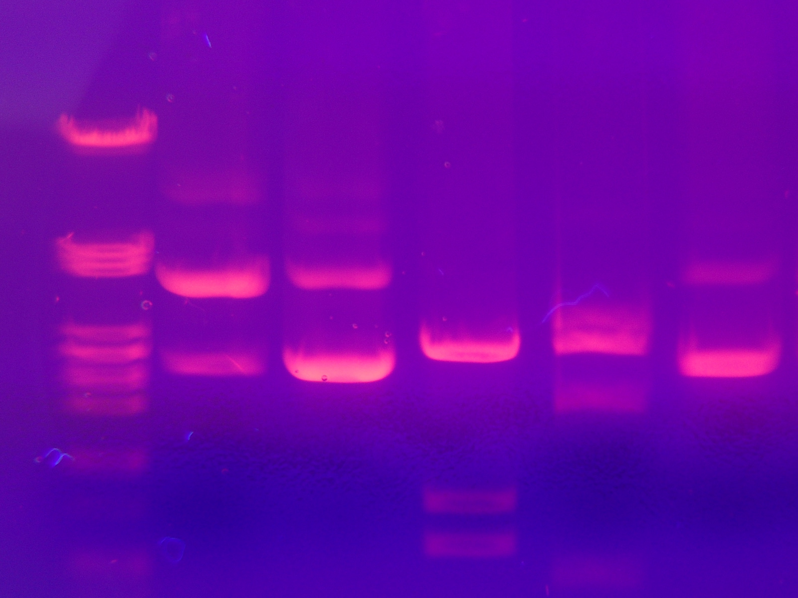 Gel electrophoresis: 6 "DNA-tracks". In the first row (left), DNA with known fragment sizes was used as a reference. Different bands indicate different fragment sizes (the smaller, the faster it travels, the lower it is in the image); different intensities indicate different concentrations (the brighter, the more DNA). DNA was made visible using ethidium bromide and ultraviolet light.